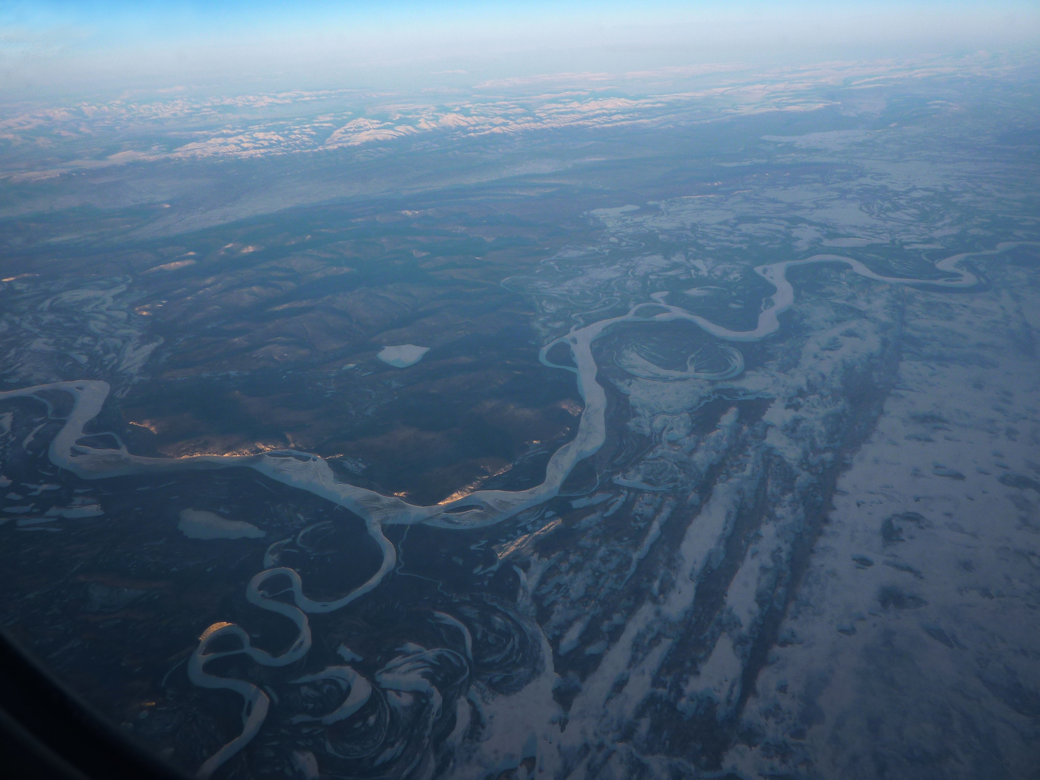 The fall of the Kantishna River (coming from the bottom left) into the Tanana River (coming from the right, and continuing to the top left). Looking roughly north.